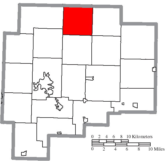 Map of the municipal and township boundaries of Guernsey County, Ohio, United States, as of the 2000 census, with the location of Monroe Township highlighted. Township borders are shown only in unincorporated areas in order to differentiate incorporated and unincorporated areas more clearly.